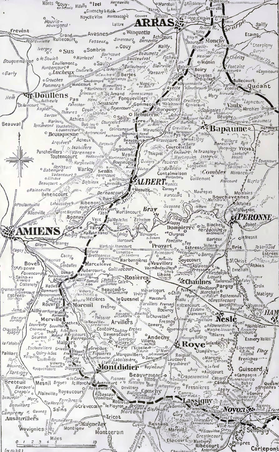 Map showing the western limit of the German advance in Operation Michael, from March–April 1918